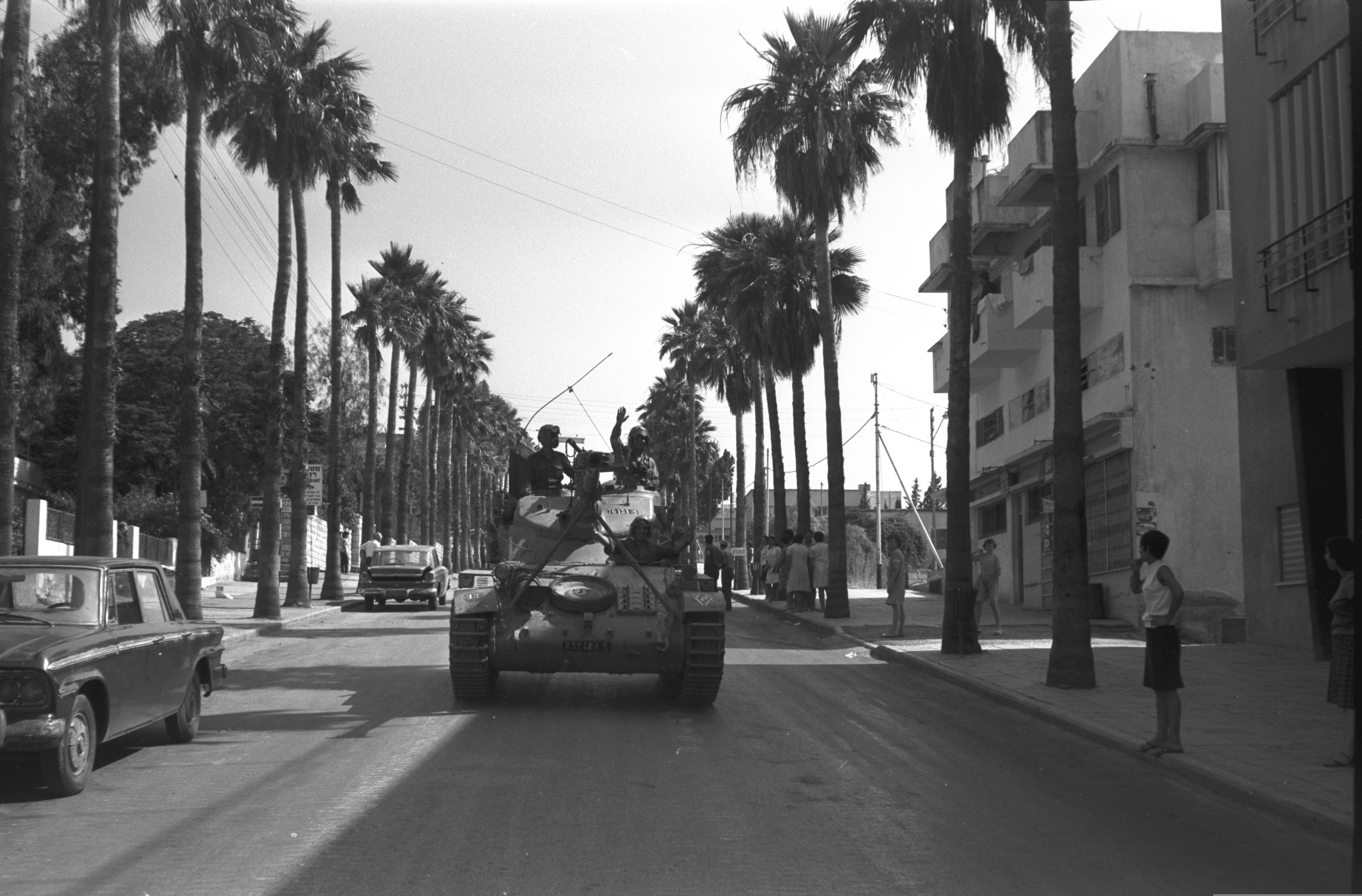 Israeli tanks passing through Tiberias on their way into action on the Syrian border.